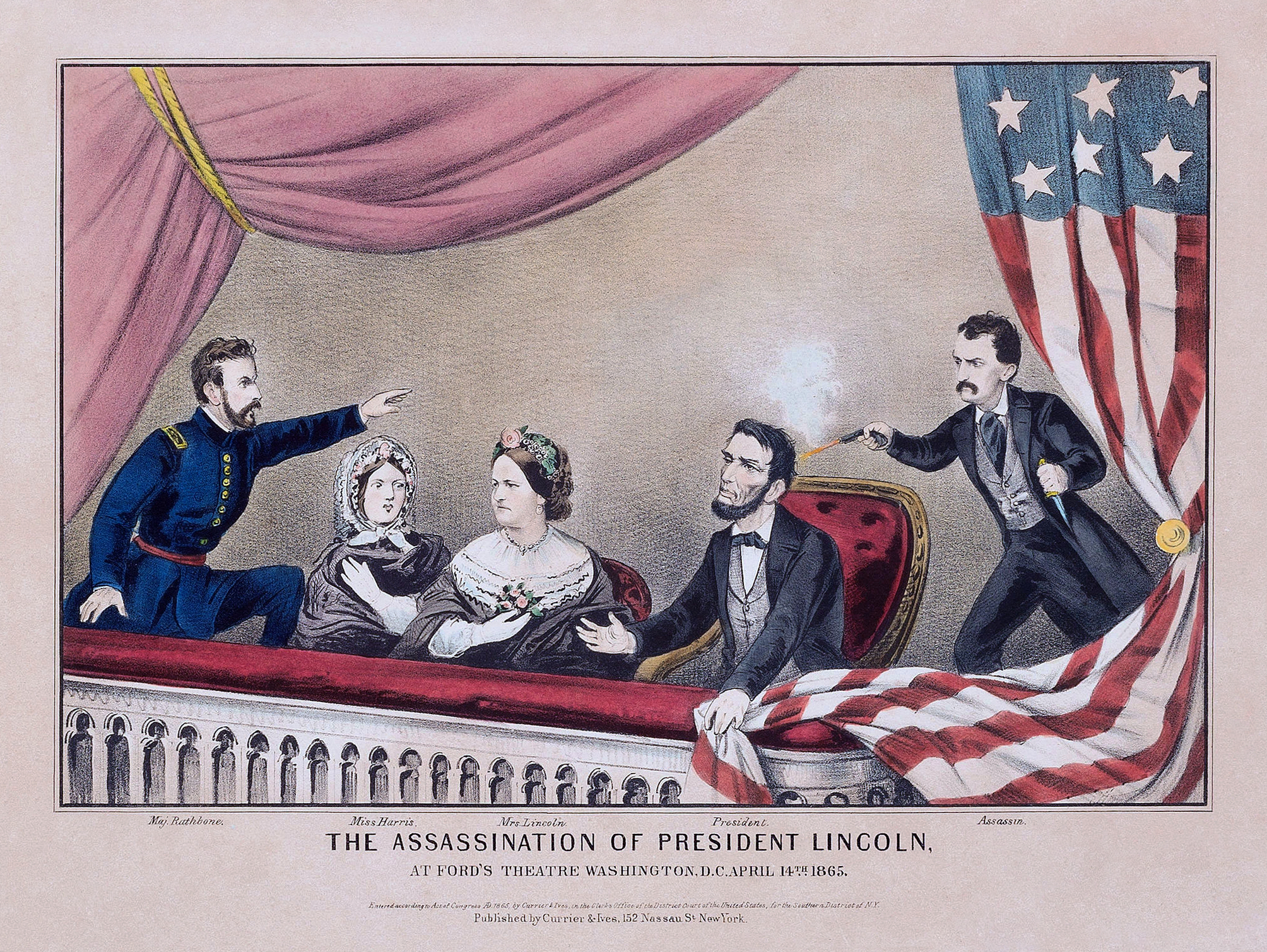 Assassination of Abraham Lincoln, 1865, hand-colored lithograph on paper by Currier & Ives Lithography Company From left to right: Henry Rathbone, Clara Harris, Mary Todd Lincoln, Abraham Lincoln, and John Wilkes Booth. Rathbone is depicted as spotting Booth before he shot Lincoln and trying to stop him as Booth fired his weapon. Rathbone actually was unaware of Booth’s approach, and reacted after the shot was fired. While Lincoln is depicted clutching the flag after being shot, it is also possible that he just simply pushed the flag aside to watch the performance.